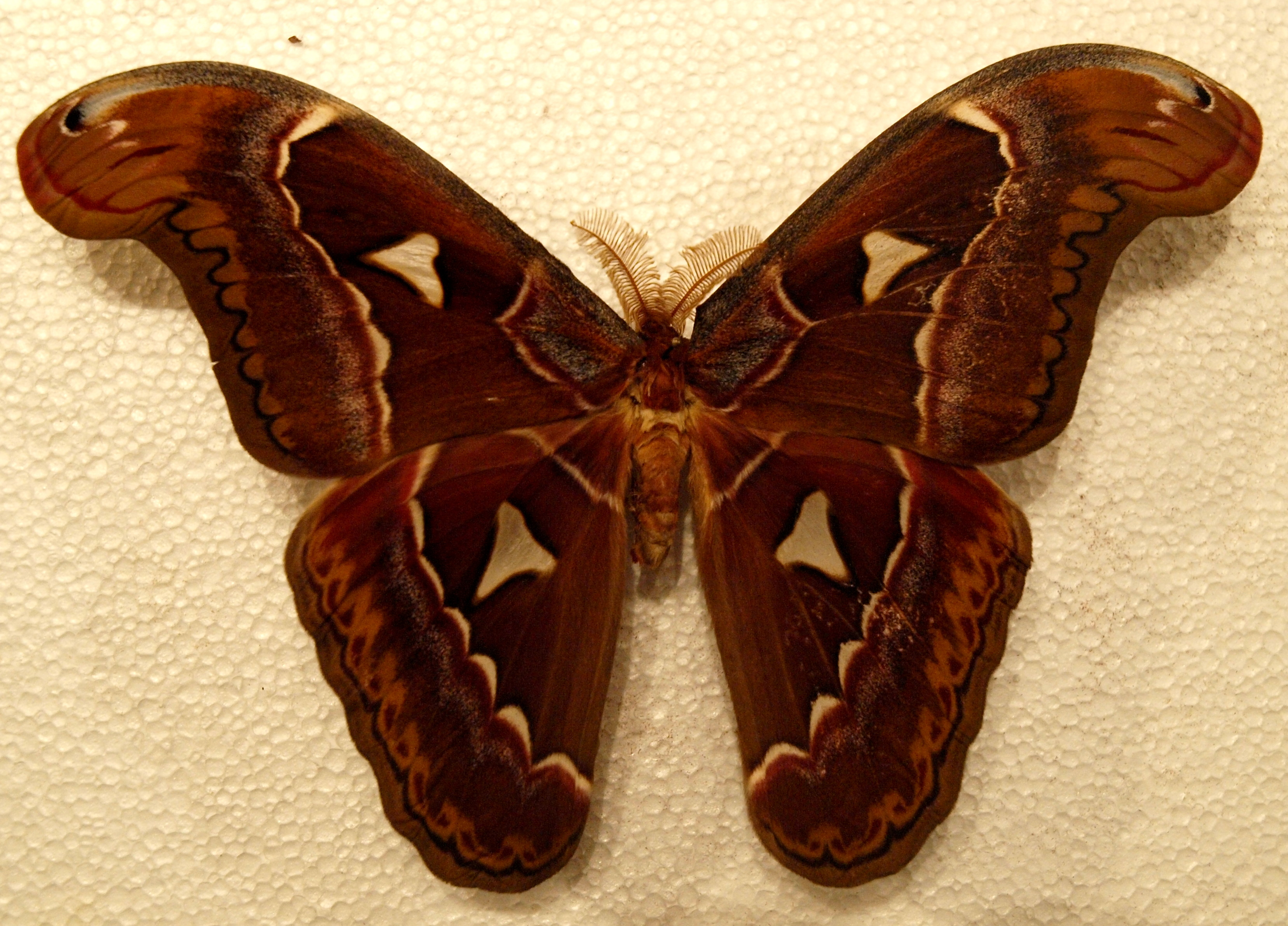 Male Attacus dohertyi (Saturniidae) from Timor. Ex. own collection